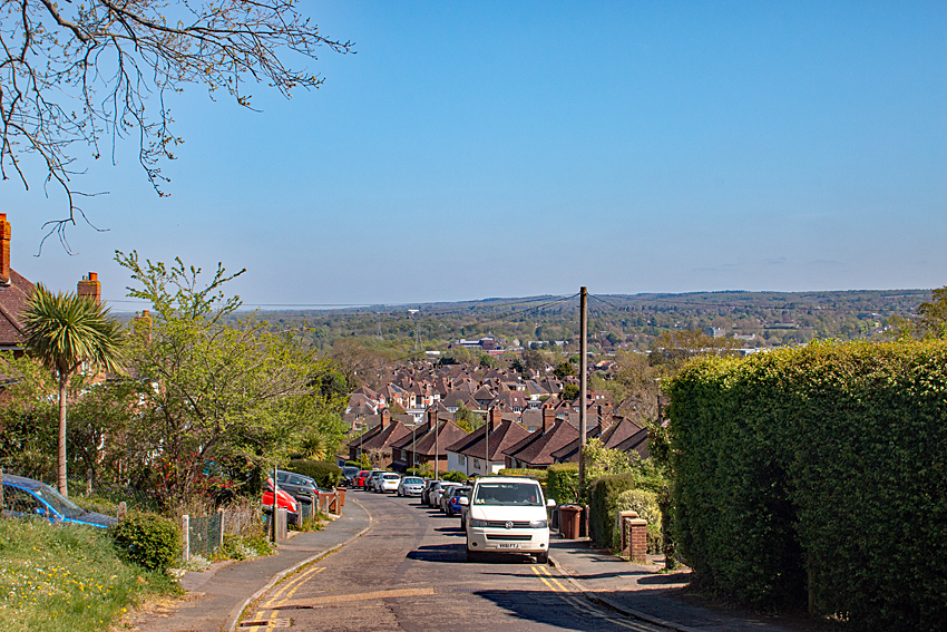 View over the Guildford suburb of Westborough